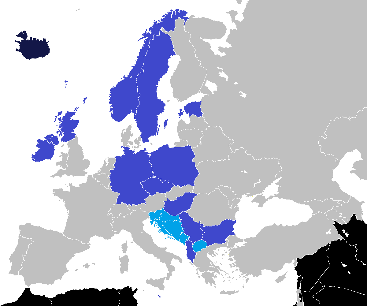 Derivative work by me. Original uploader was SteveGOLD at en.wikipedia